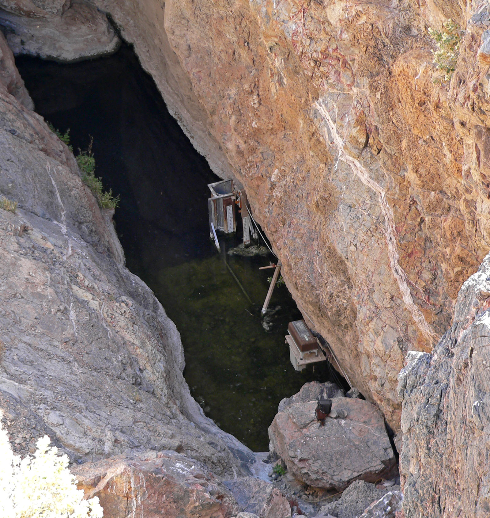 Devils Hole, Death Valley National Park, southern Nevada